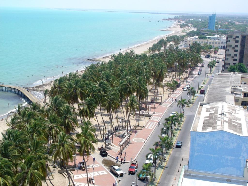 Taken by Carlos Castaneda